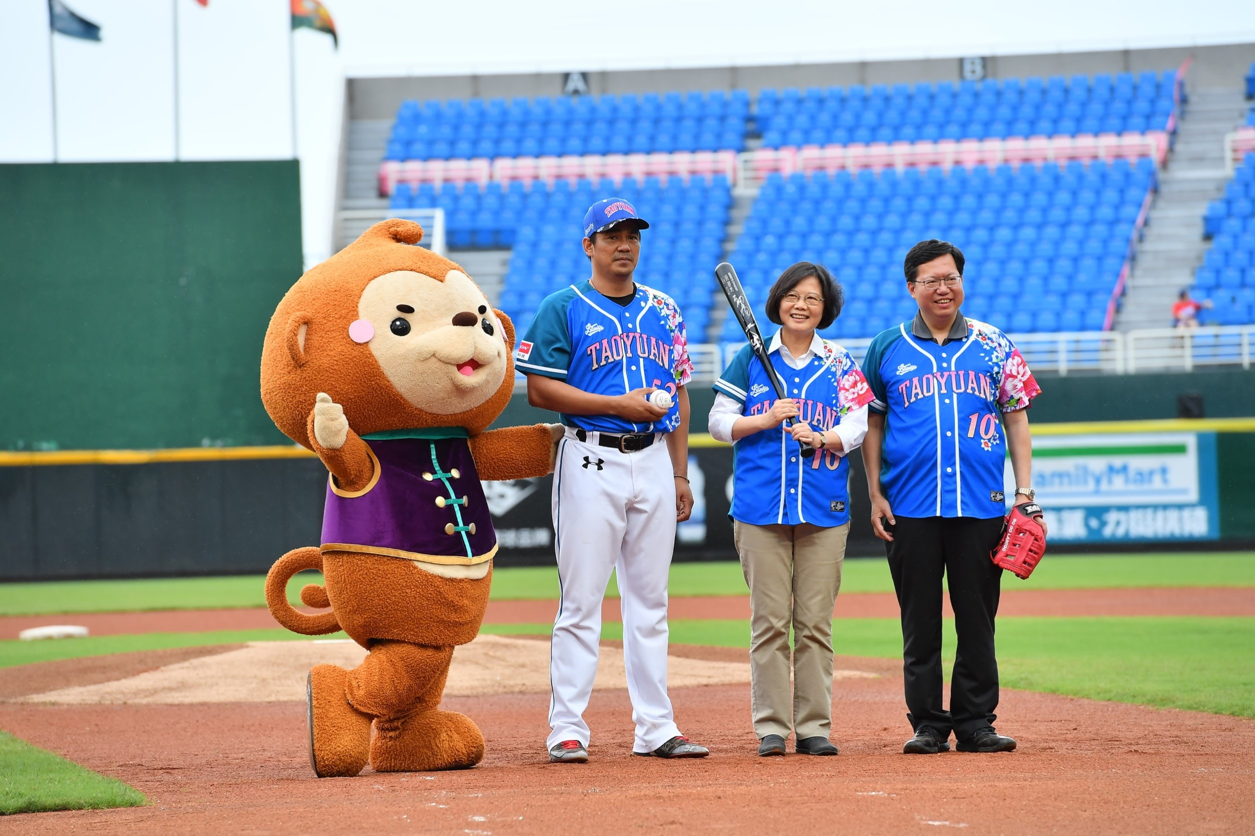 President Tsai is invited by the Chinese Professional Baseball League and Taoyuan City Government to throw the opening pitch at Taoyuan International Baseball Stadium. Other important guests at the game include Baseball star Chen Chin-feng and Taoyuan City Mayor Cheng Wen-tsan.